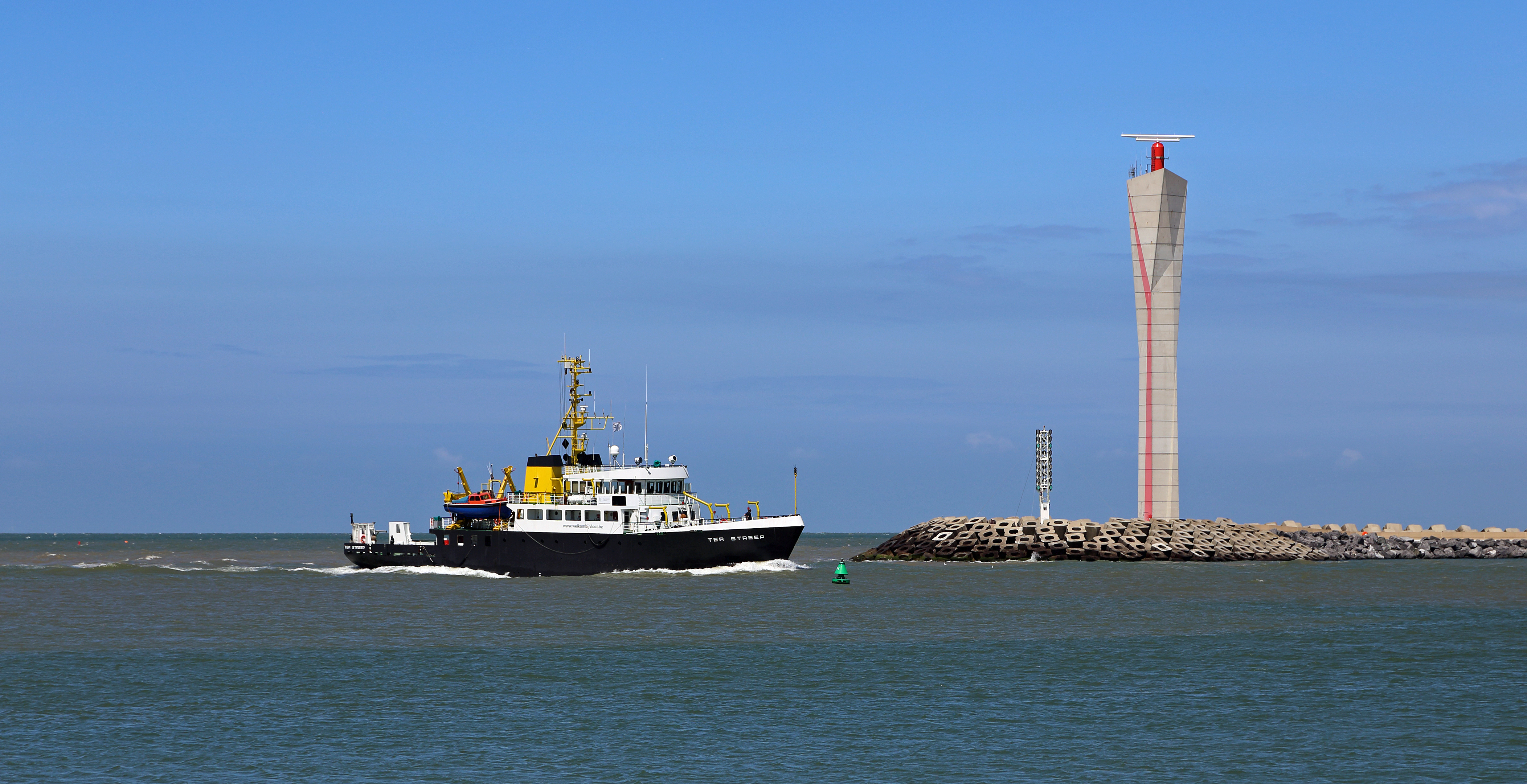 Belgian research and survey vessel Ter Streep entering the harbour of Ostend (Belgium); right: radar tower of the Schelderadarketen (Vessel Traffic Service)